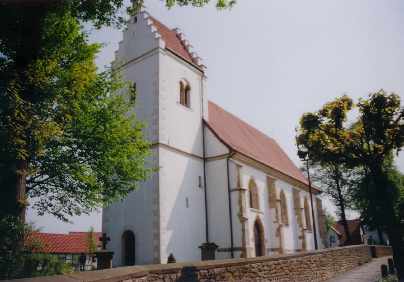 Protestant church in Mettingen, Kreis Steinfurt, North Rhine-Westphalia, Germany.